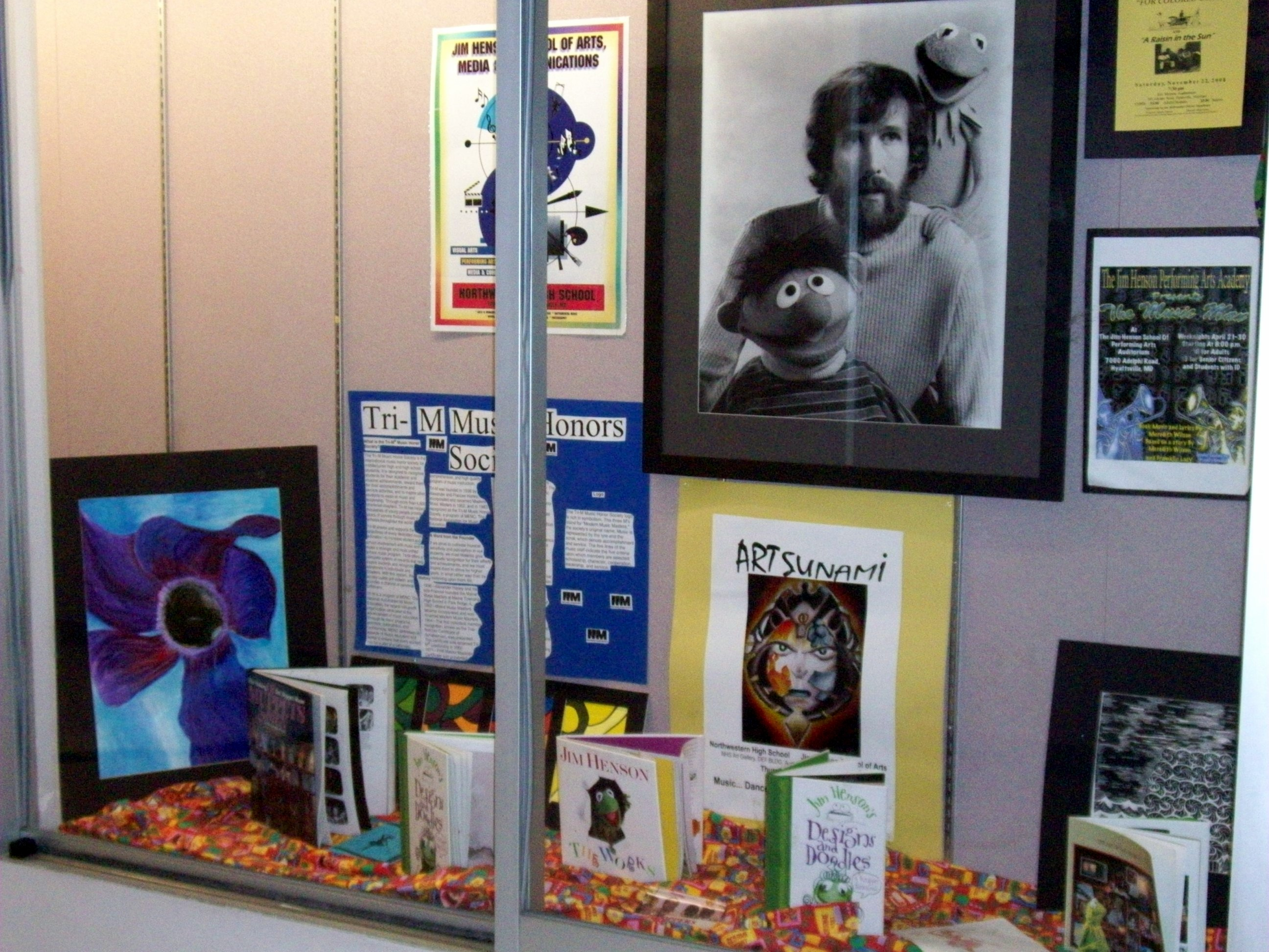 A display case about Jim Henson, creator of "The Muppets", at the Jim Henson School of Arts, Media, and Communications at Northwestern High School in Hyattsville, MD, USA. Henson graduated from Northwestern in 1954.